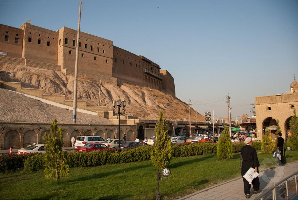 Hawija, city from Kirkuk